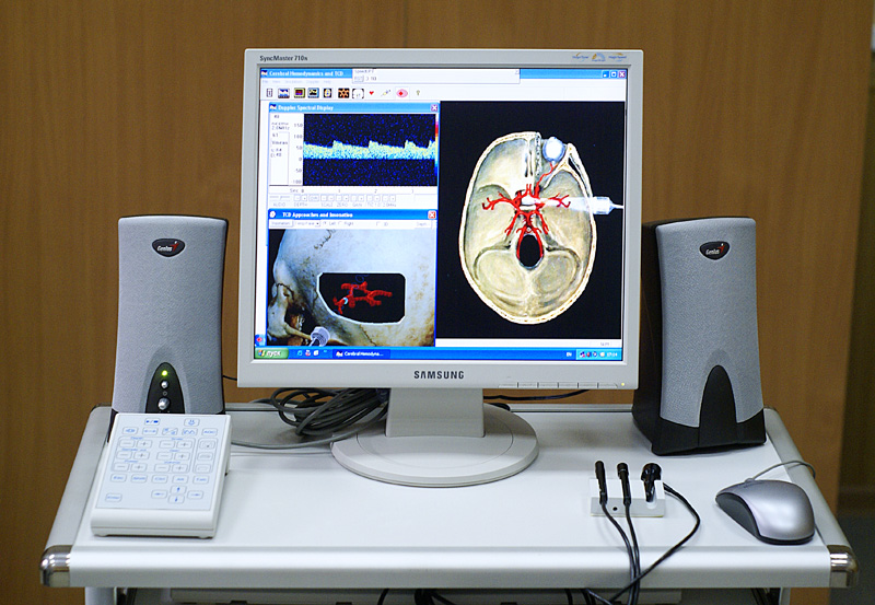 Doppler ultrasound analyzer of blood velocity produced by JSC "Bioss" (Zelenograd, Moscow, Russia).